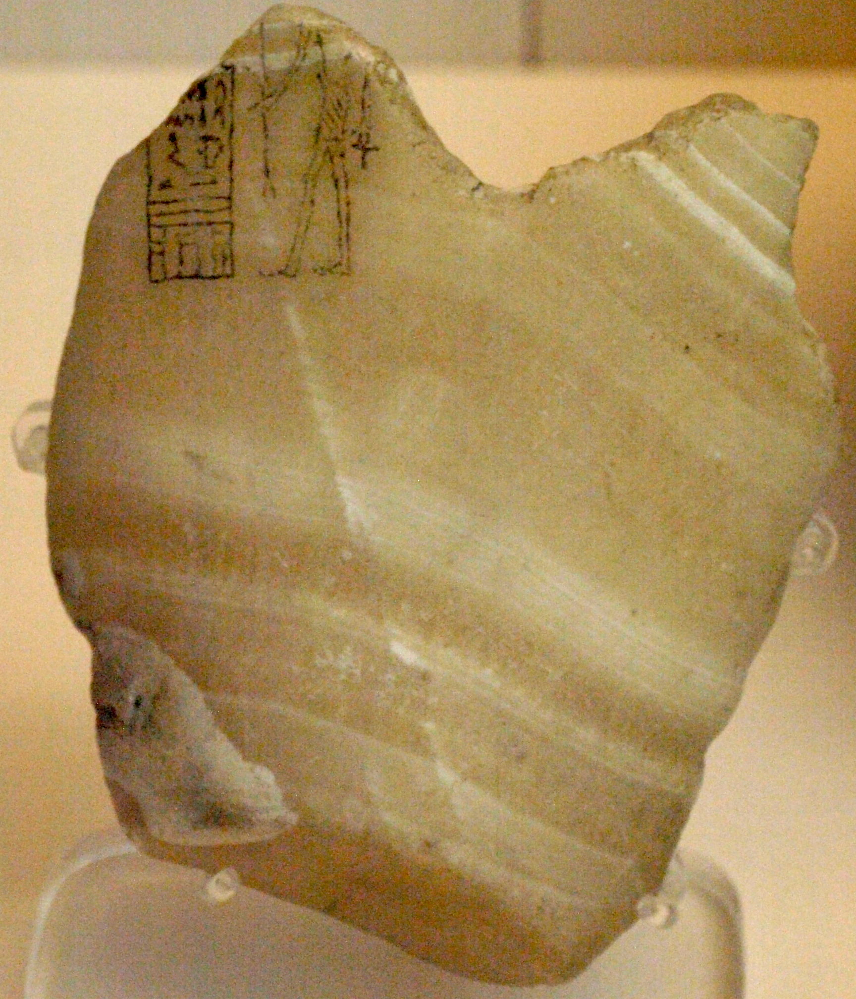 Inscribed calcite vase fragment with the royal name Sekhemib-Perenmmat, thought to have been used by the pharaoh Peribsen early in his reign. Circa 2800 BC, 2nd dynasty. EA 52862.